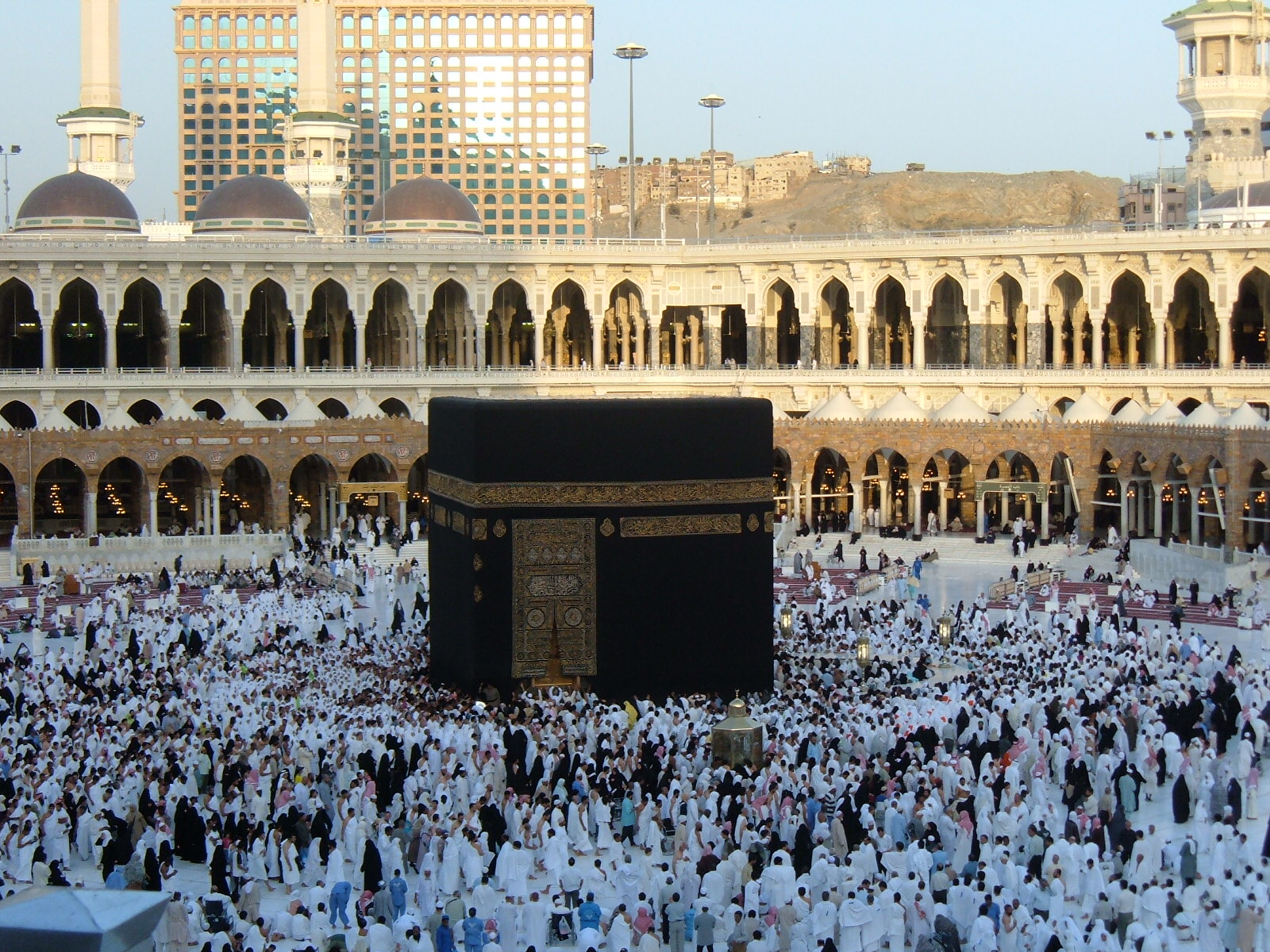 Amr Zakarya